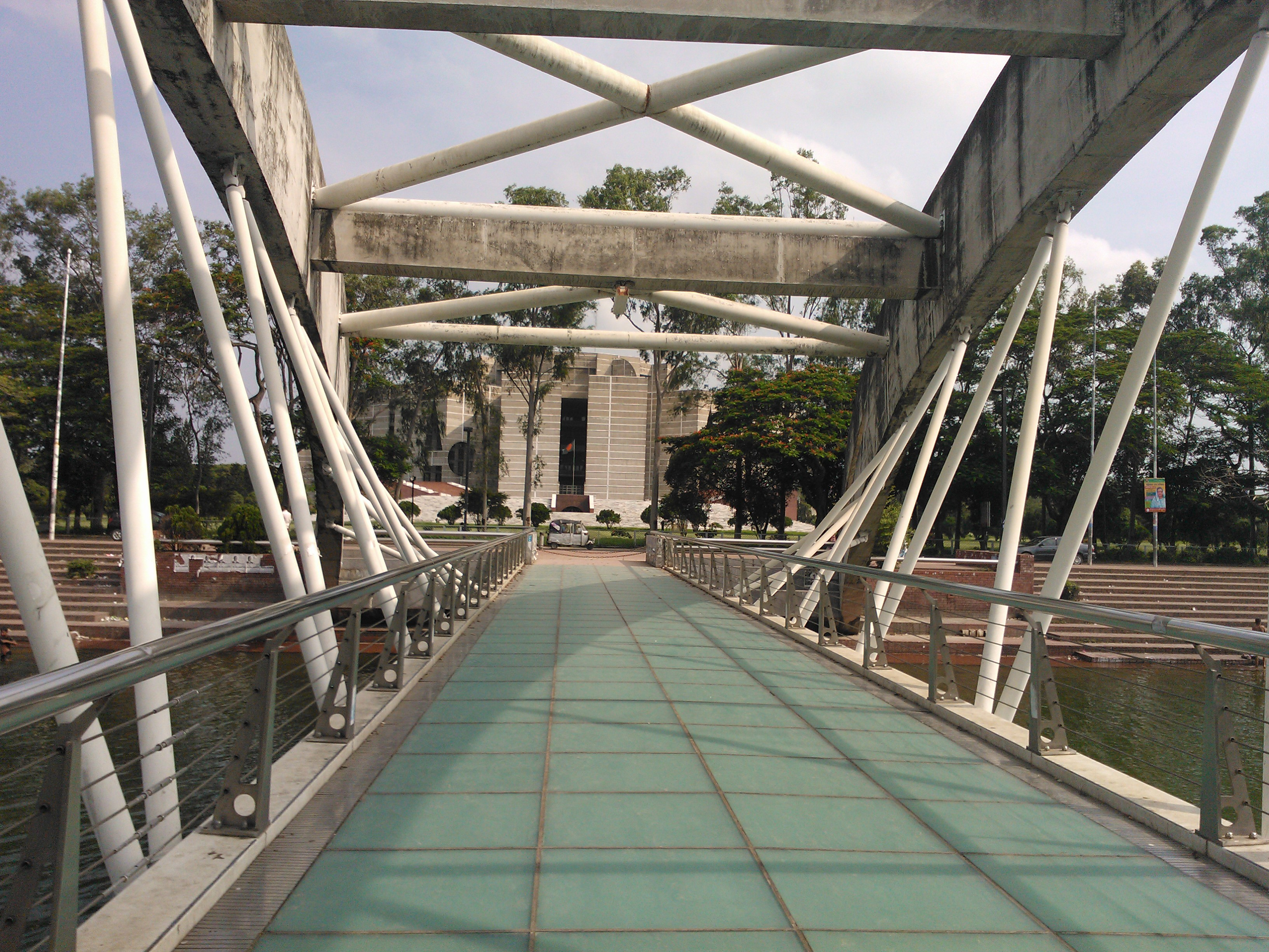 Crescent Lake at Chandrima Uddan, Dhaka, Bangladesh.